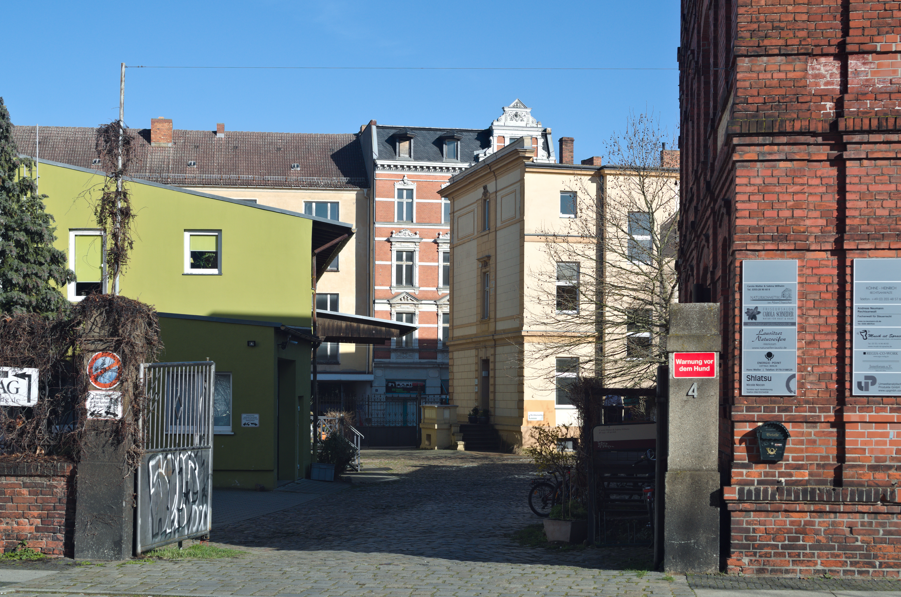 Listed Casper Gewerbehof, Taubenstraße 4 in Cottbus-Mitte.